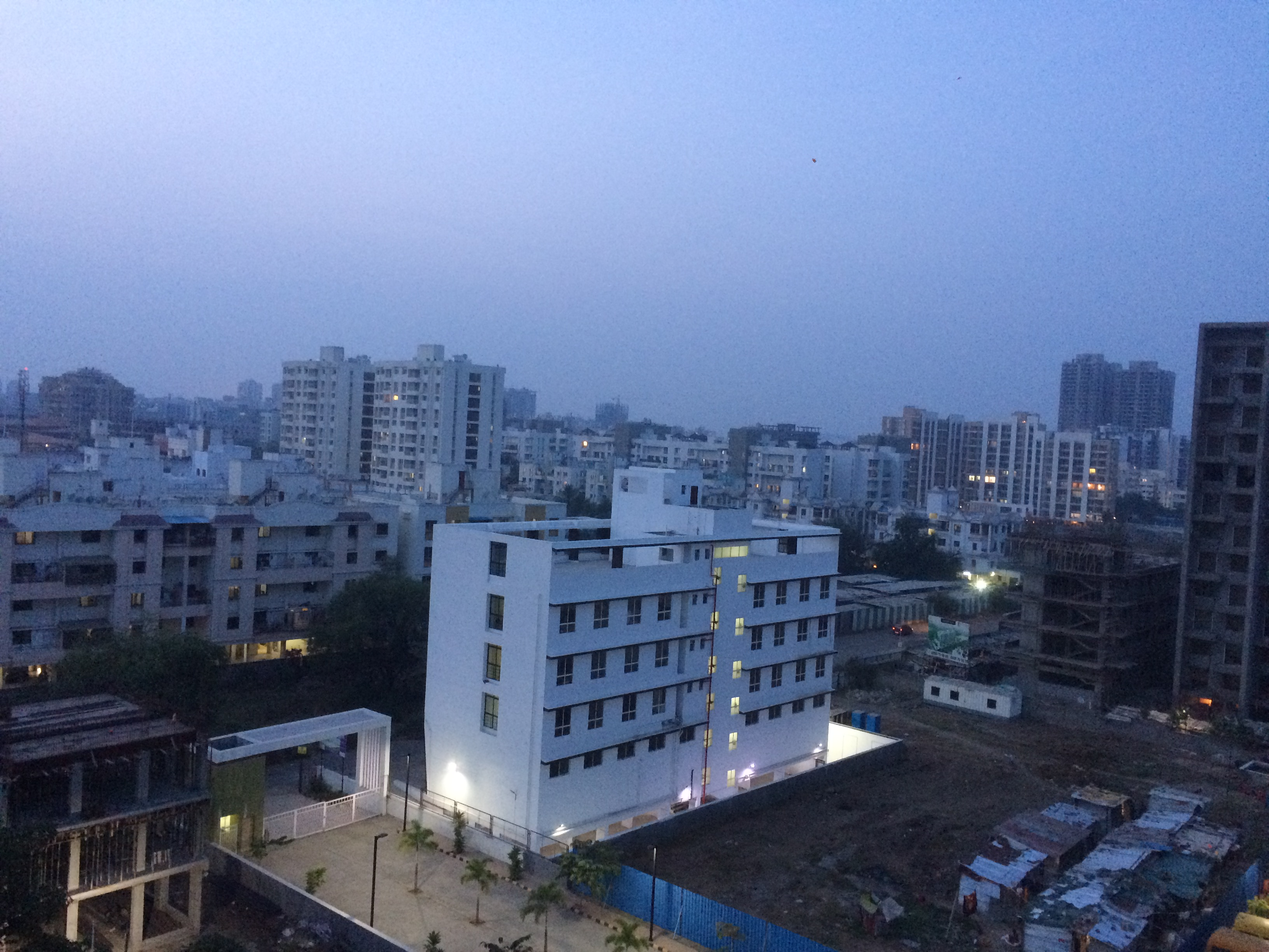 View of Hadapsar near Amanora Park Town